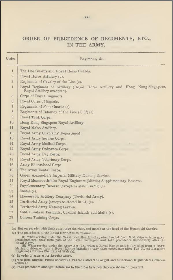 The 1937 Order of Precedence of the British Army, from the The Quarterly Army List, January, 1937.